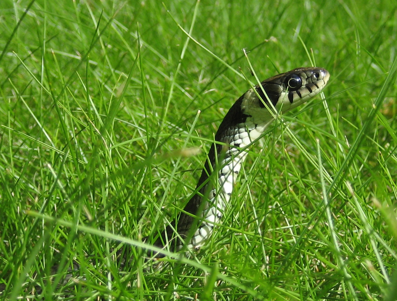 N. natrix, grass snake. Sweden, September 2011.